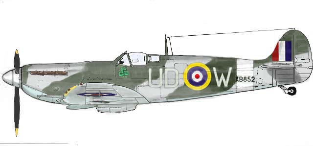 Paddy Finucane's Spitfire of No. 452 Squadron RAAF with shamrock marking. It was nicknamed The Flying Shamrock.